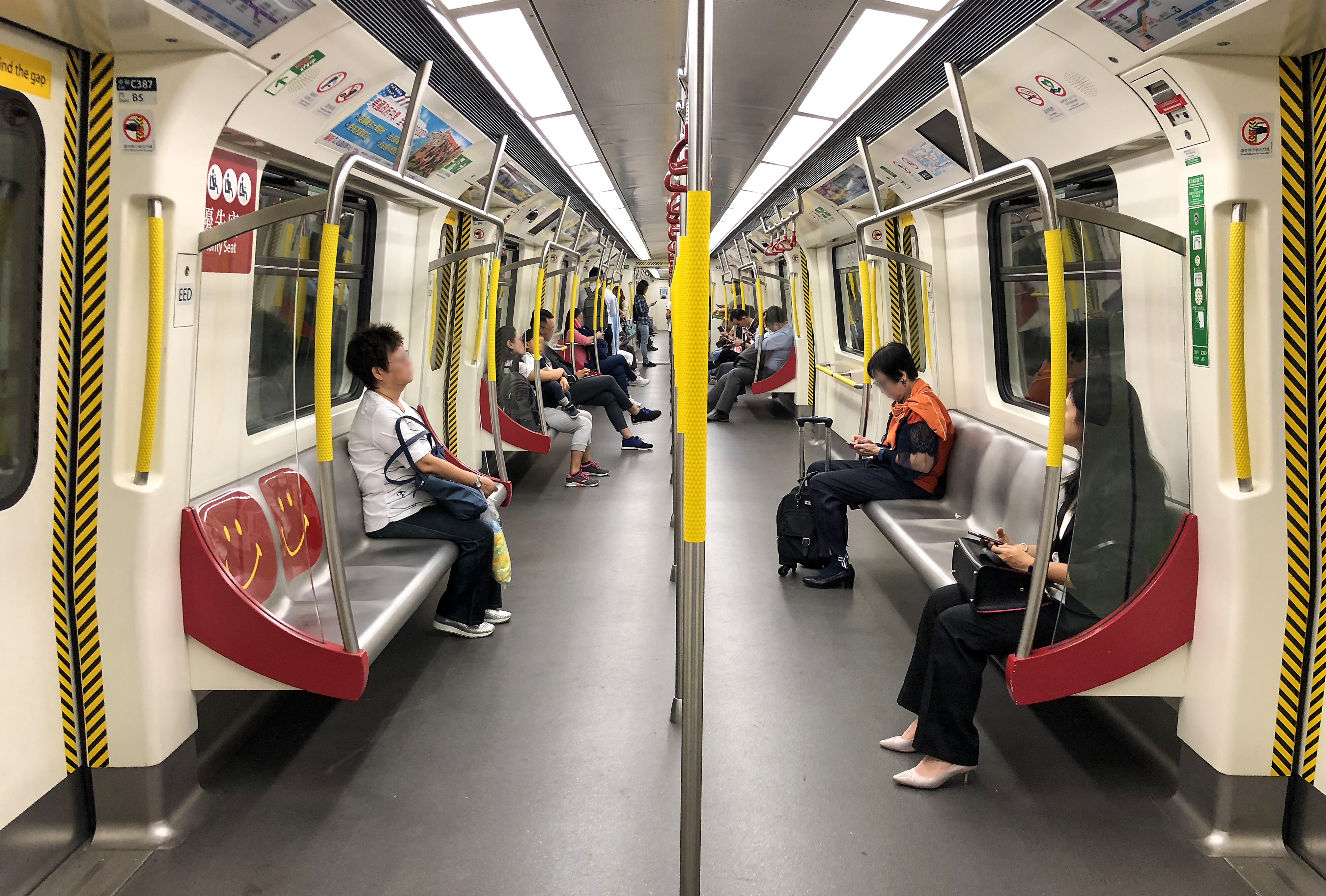 En route from Yau Ma Tei to Whampoa.